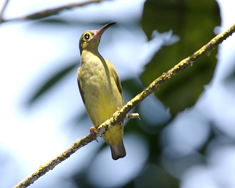 Spectacled Spiderhunter Arachnothera flavigaster Panti Forest, Johor, Malaysia